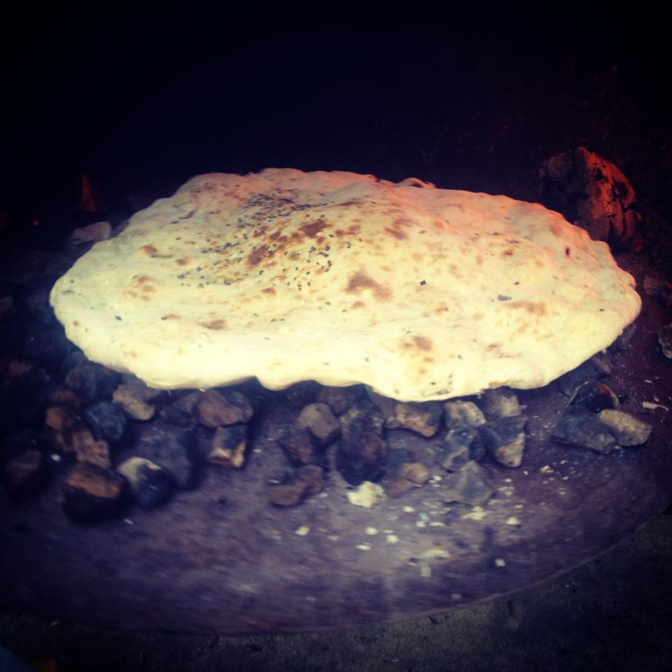 Events in Israel